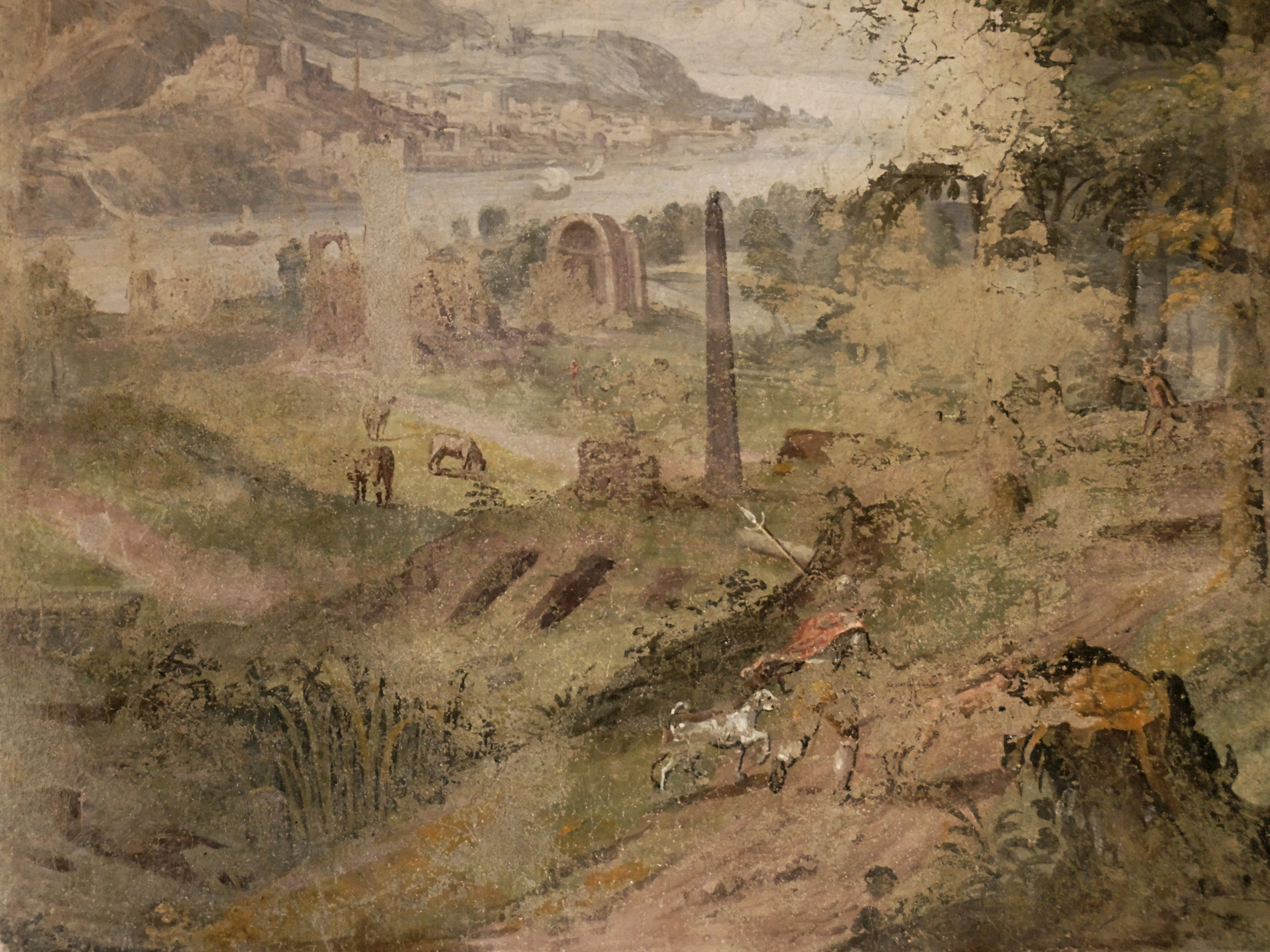 A soldier with a dog by Antonio Viviani (1560–1620), fresco in the loggia at the Palazzo Altemps, Rome.